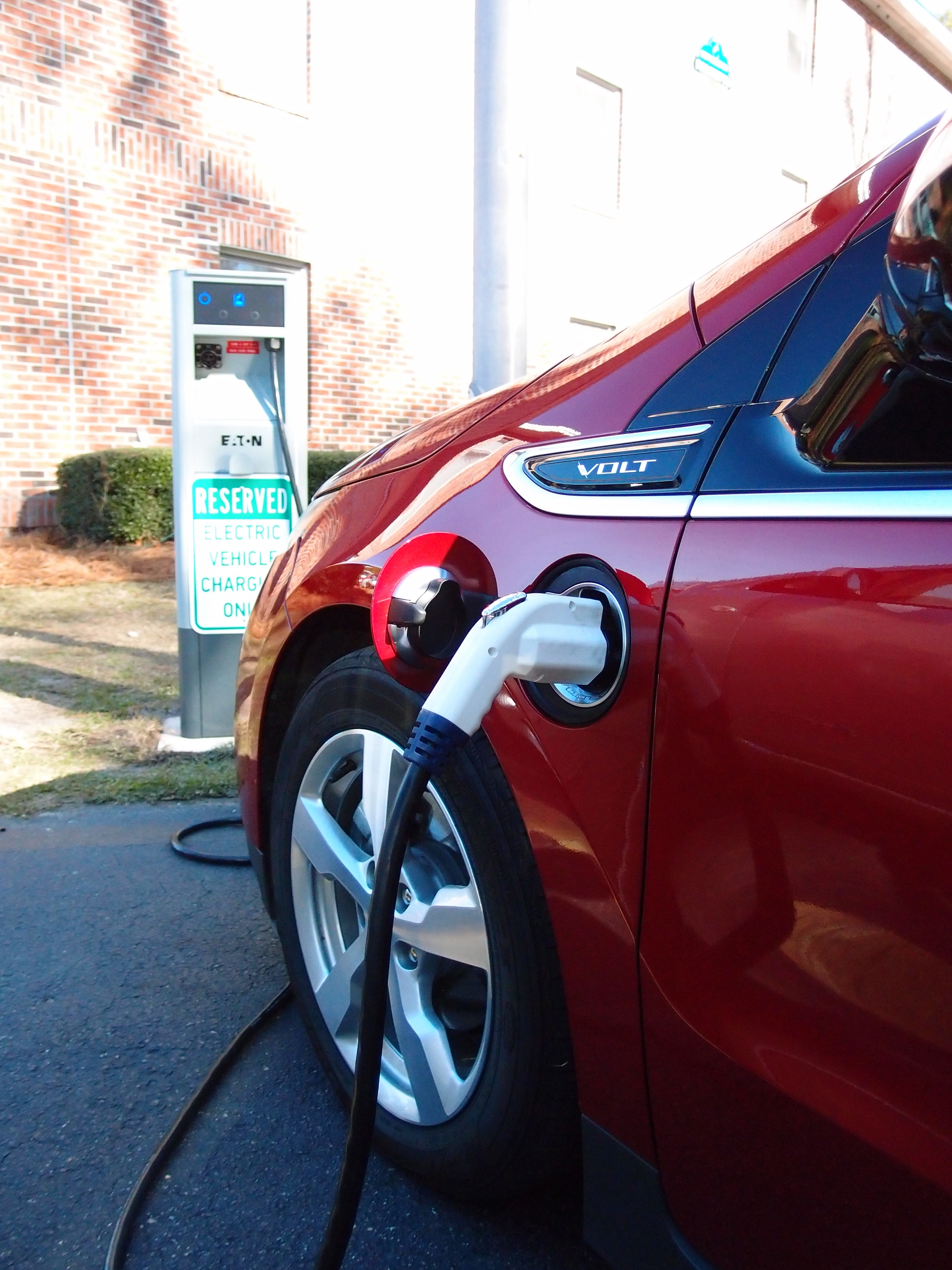 Chevrolet Volt charging in Crosswinds, South Carolina, US.